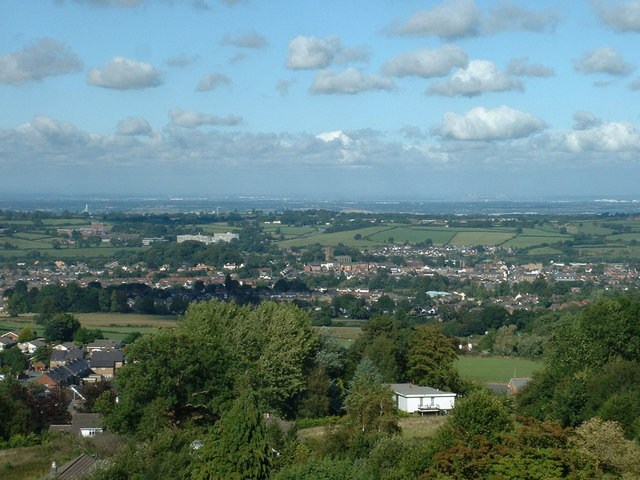 Looking down on Mold [Yr Wyddgrug] Taken looking north east from the minor road above Gwernymynydd.